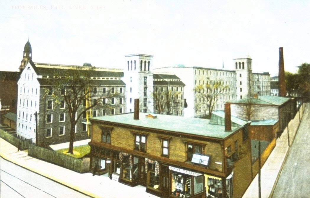 Antique postcard of Troy Mills, Fall River, Massachusetts